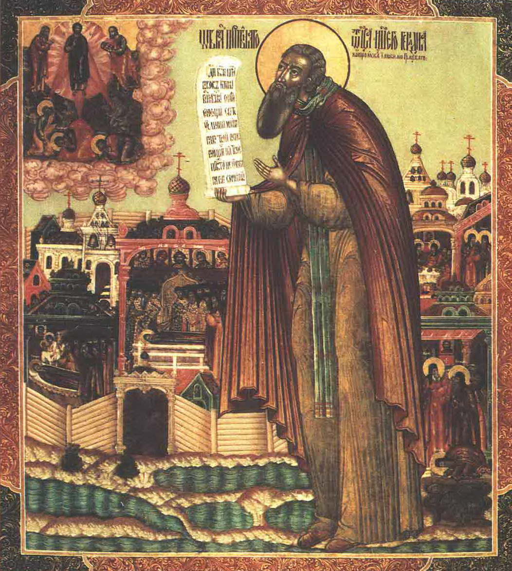 Gennady Kostromskoy and Lyubimogradsky